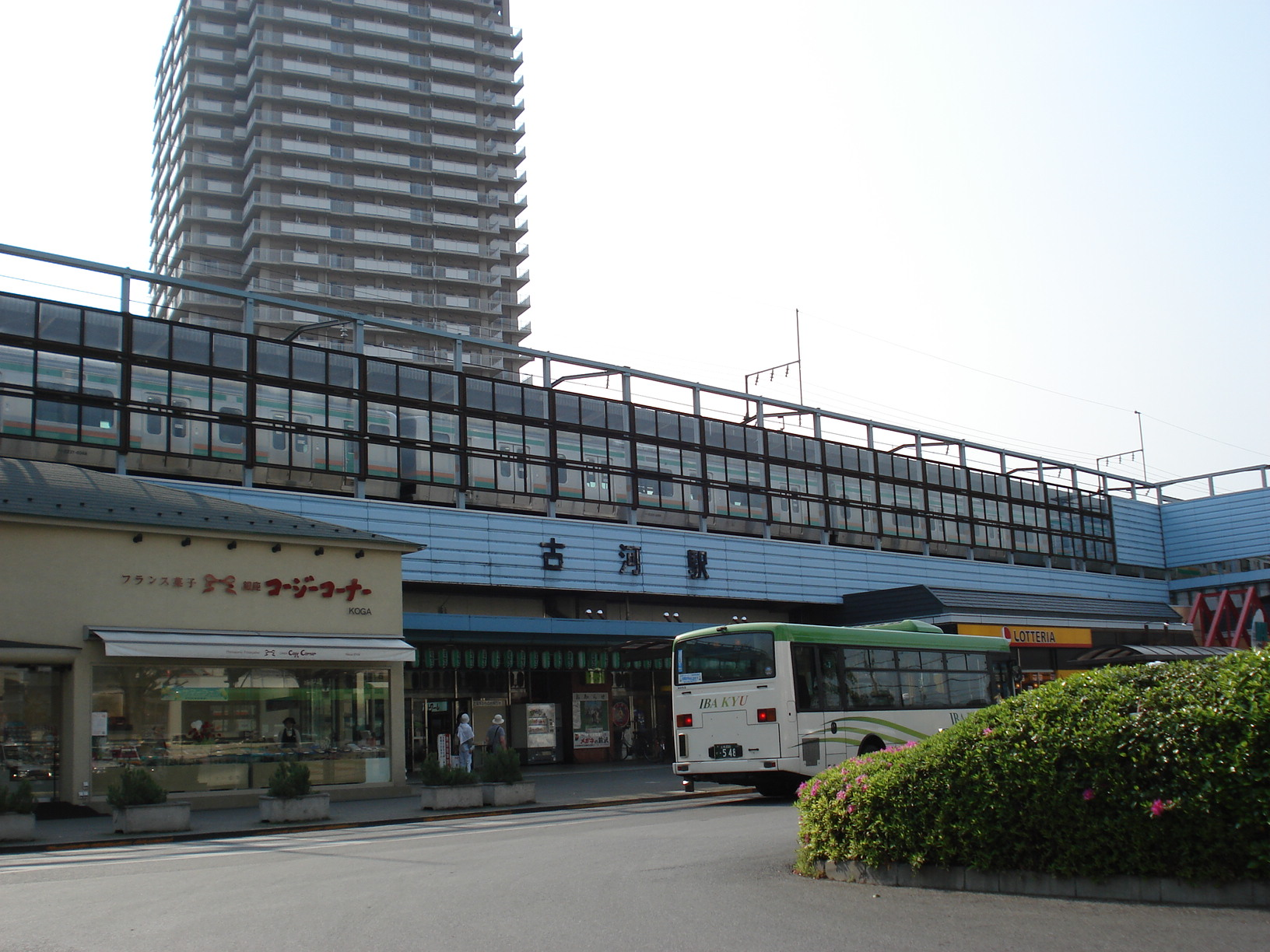 East Exit of Koga Station